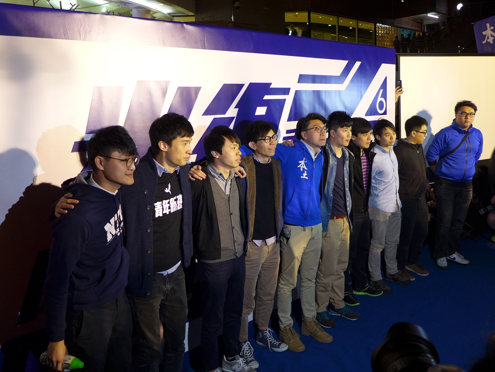 Election promotion for Edward Leung